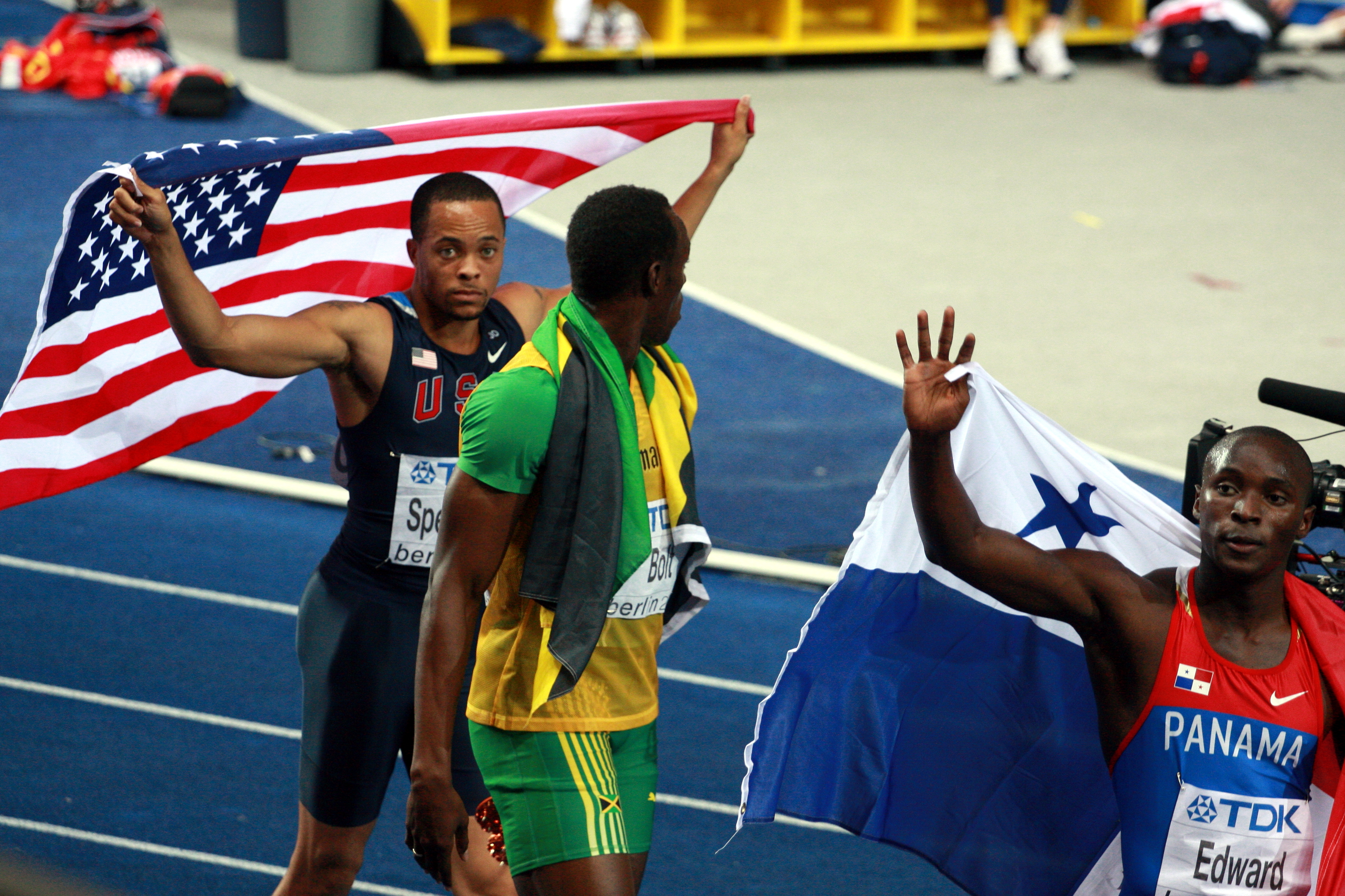 1. Usain Bolt (JAM) 19.19 (WR) 2. Alonso Edward (PAN) 19.81 3. Wallace Spearmon (USA) 19.85